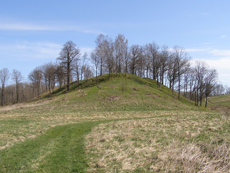 Imbarė hillfort, Kretinga district, Lithuania